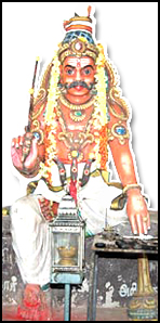 Lord Pavadairayan. One of the Male Tamil Deity. Son of Goddess Angalaparameswari.